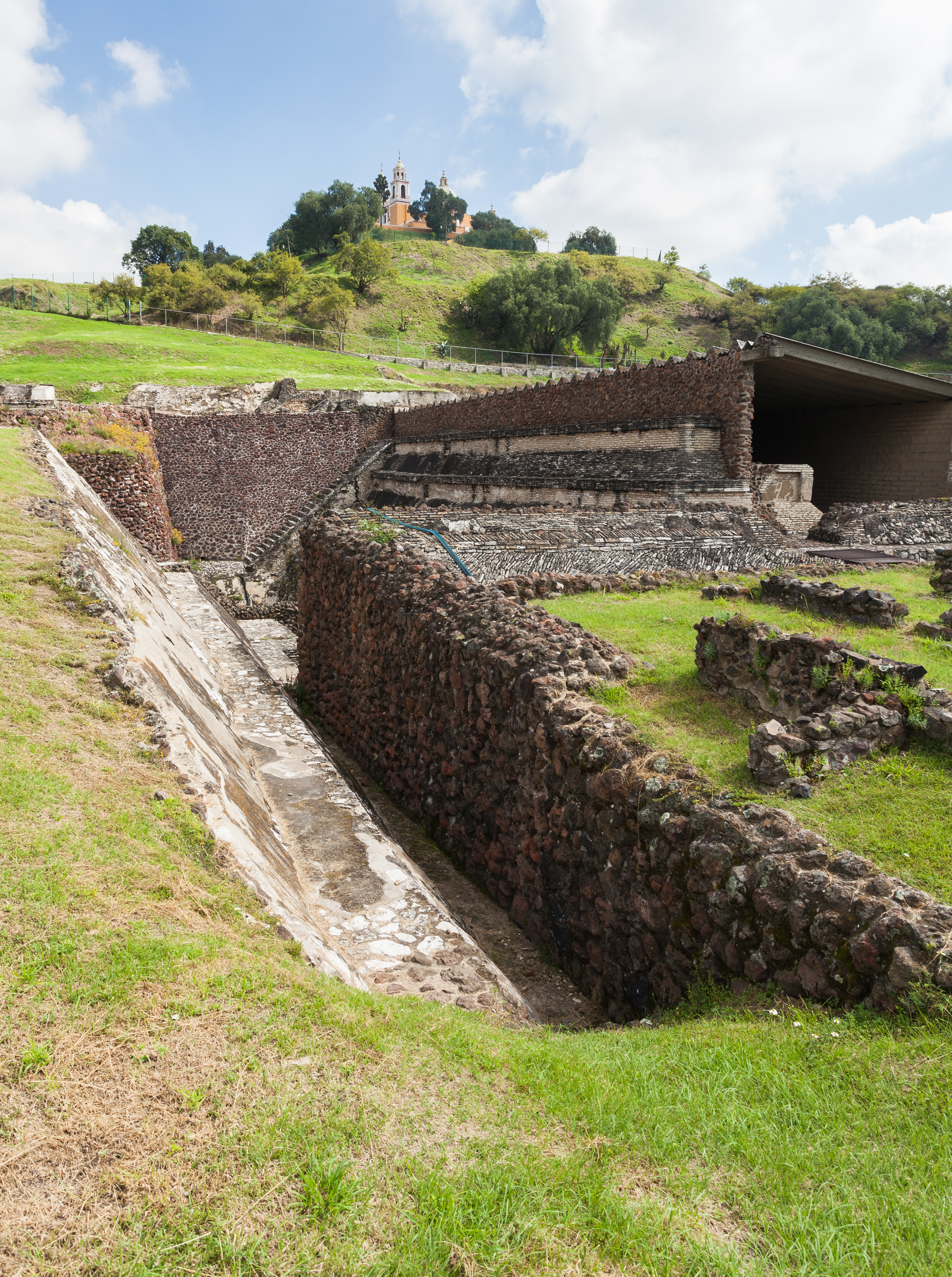 Great Pyramid of Cholula, Puebla, Mexico